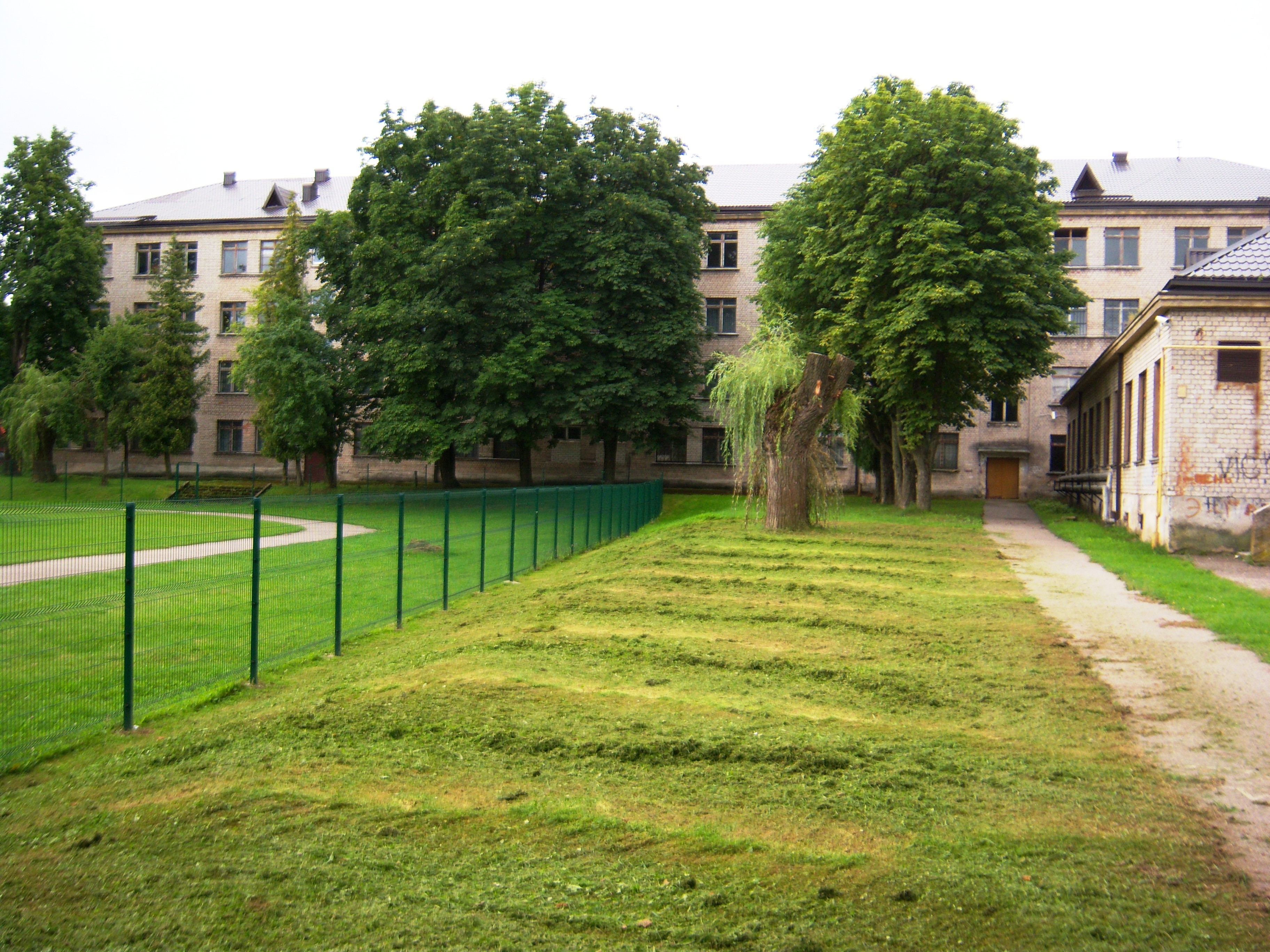 Secondary School Saulutė, Kaunas, Lithuania